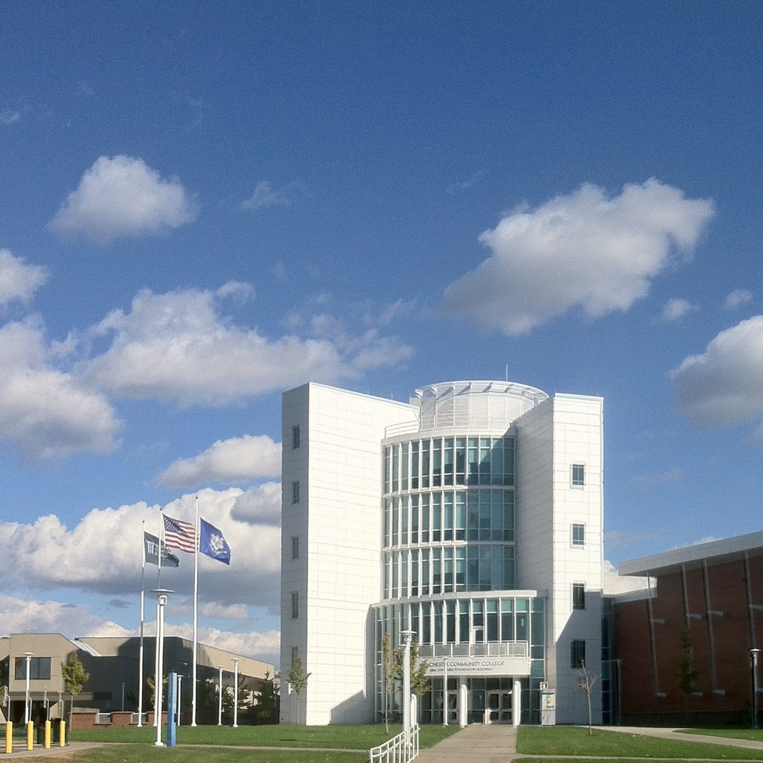 Manchester Community College SBM Charitable Foundation building; Arts, Sciences and Technology Center